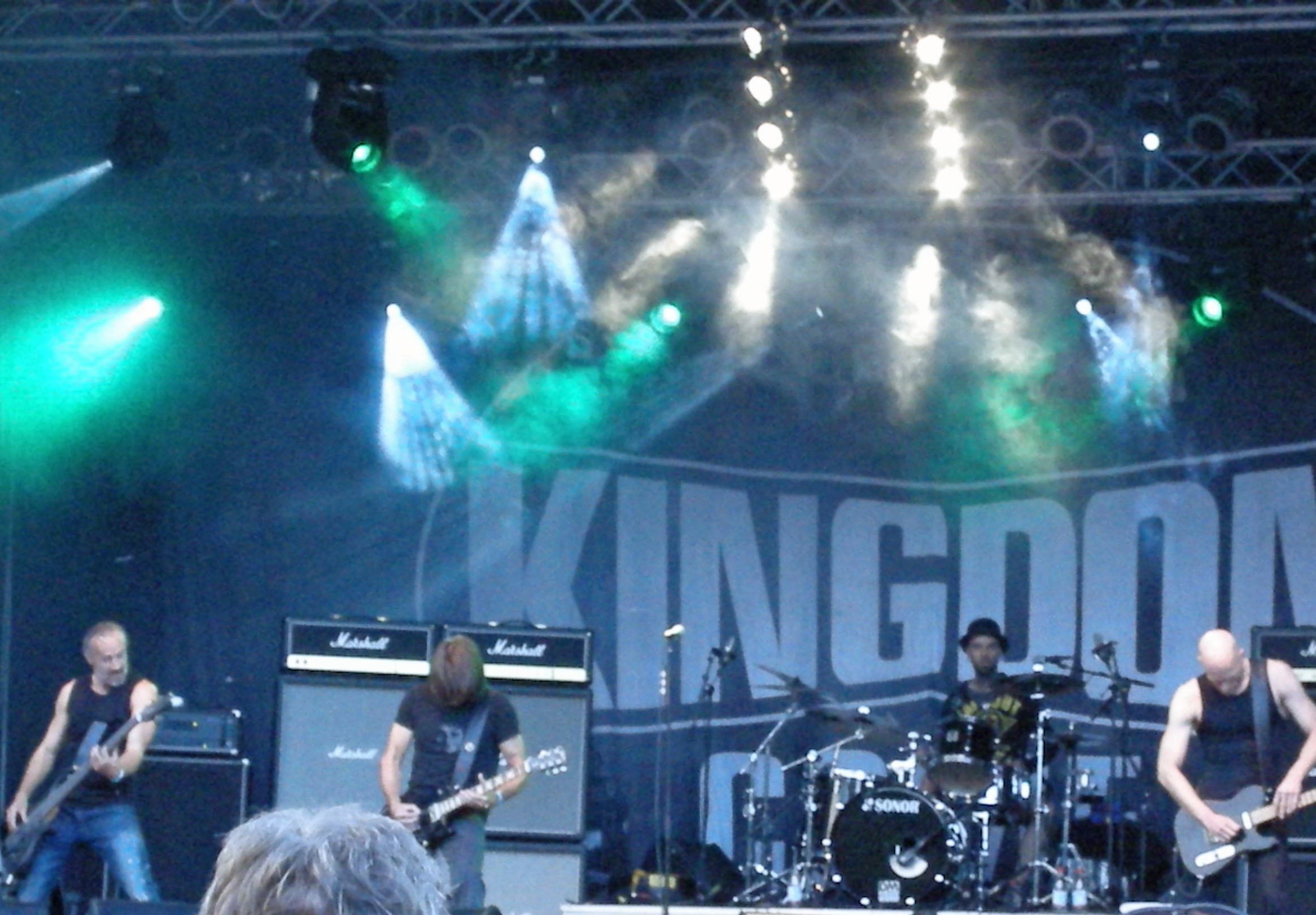 American heavy metal band Kingdom Come at Skogsröjet 2012